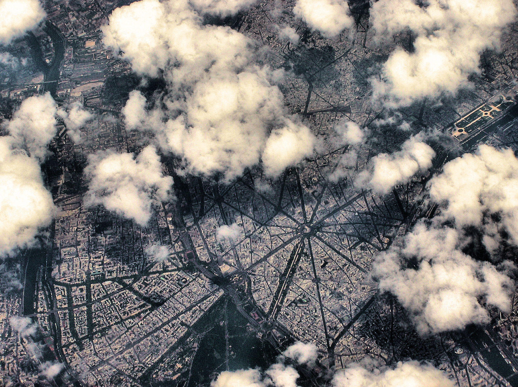 Place de l'Etoile, Paris, from an easyJet Airbus A319, flying at 35000 feet between Bristol and Rome. Sorry about the lack of quality but the aircraft window was dirty and the day was very hazy (and the Place de l'Etoile was 7 miles from my camera!). Nevertheless the pattern of Avenues is clear so I think the picture is worth having.